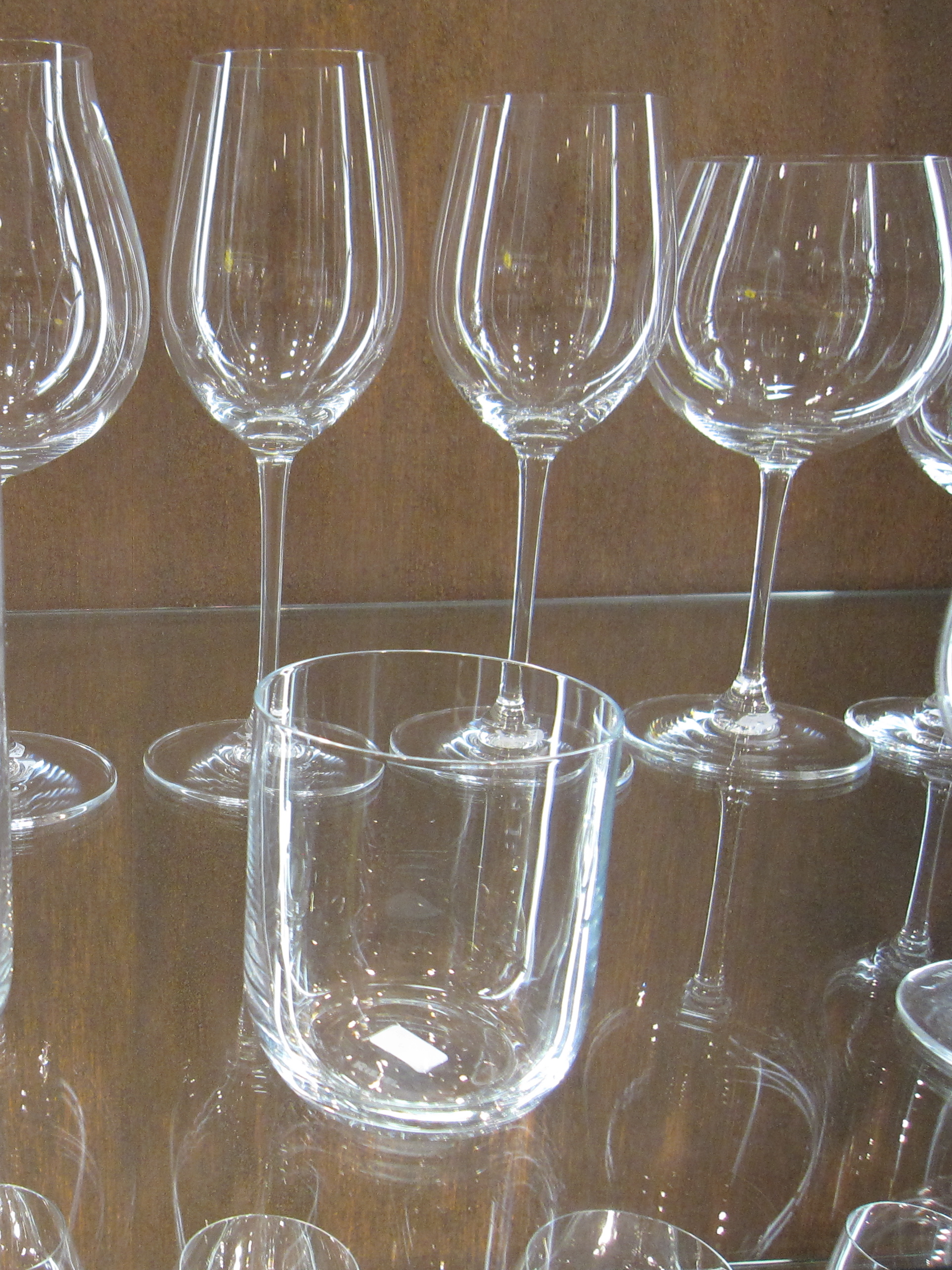 Glass by Riedel.